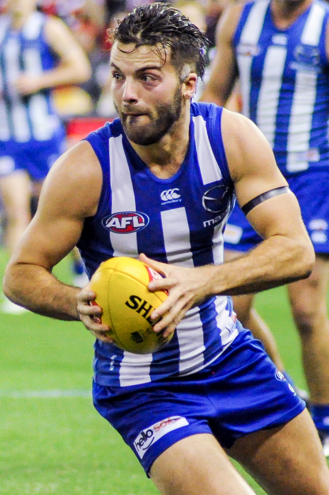 Luke McDonald during the AFL round thirteen match between North Melbourne and St Kilda on 16 June 2017 at Etihad Stadium in Melbourne, Victoria.